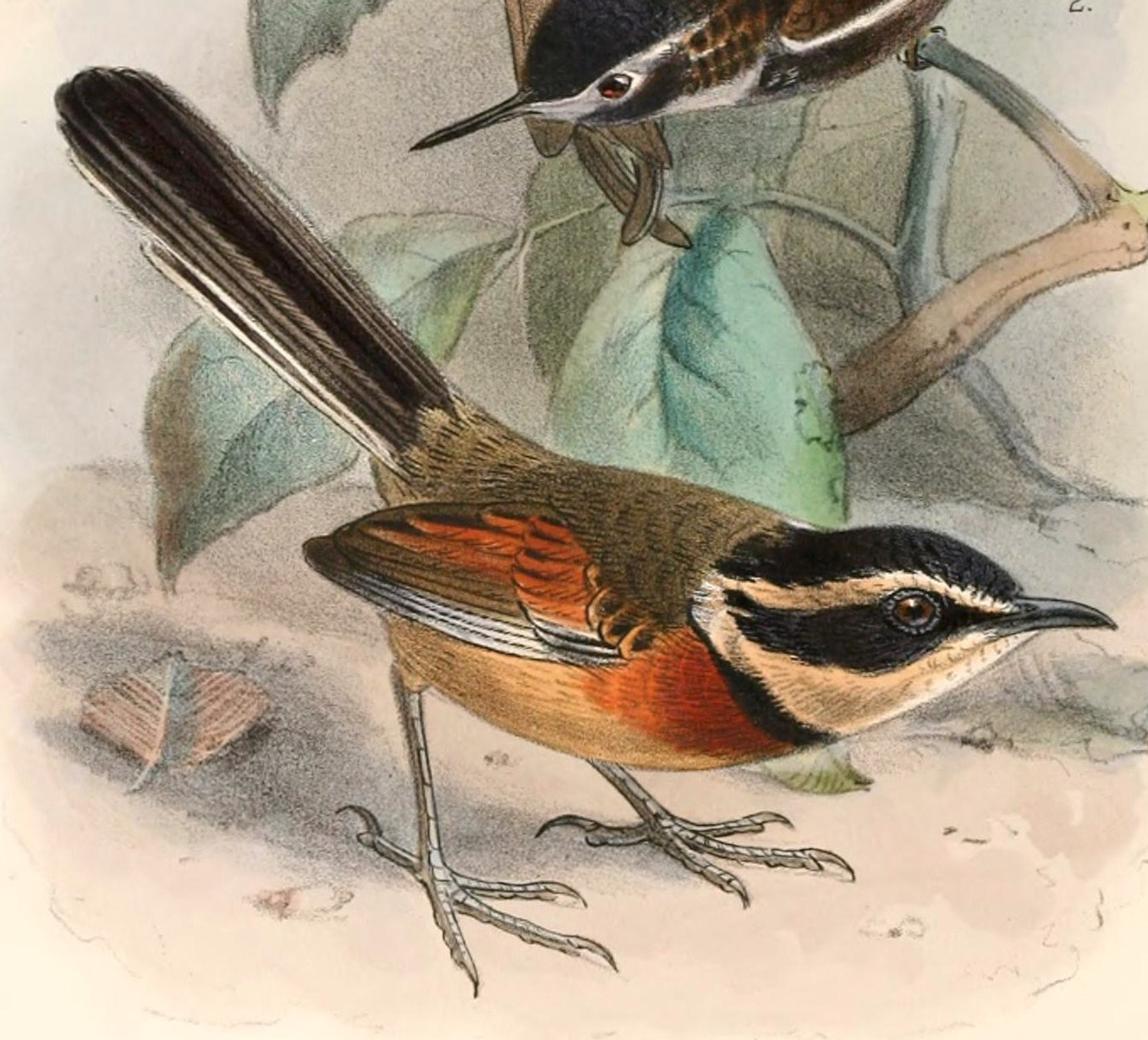 « Formicivora speciosa » = Melanopareia elegans elegans (Subspecies of Elegant Crescentchest)